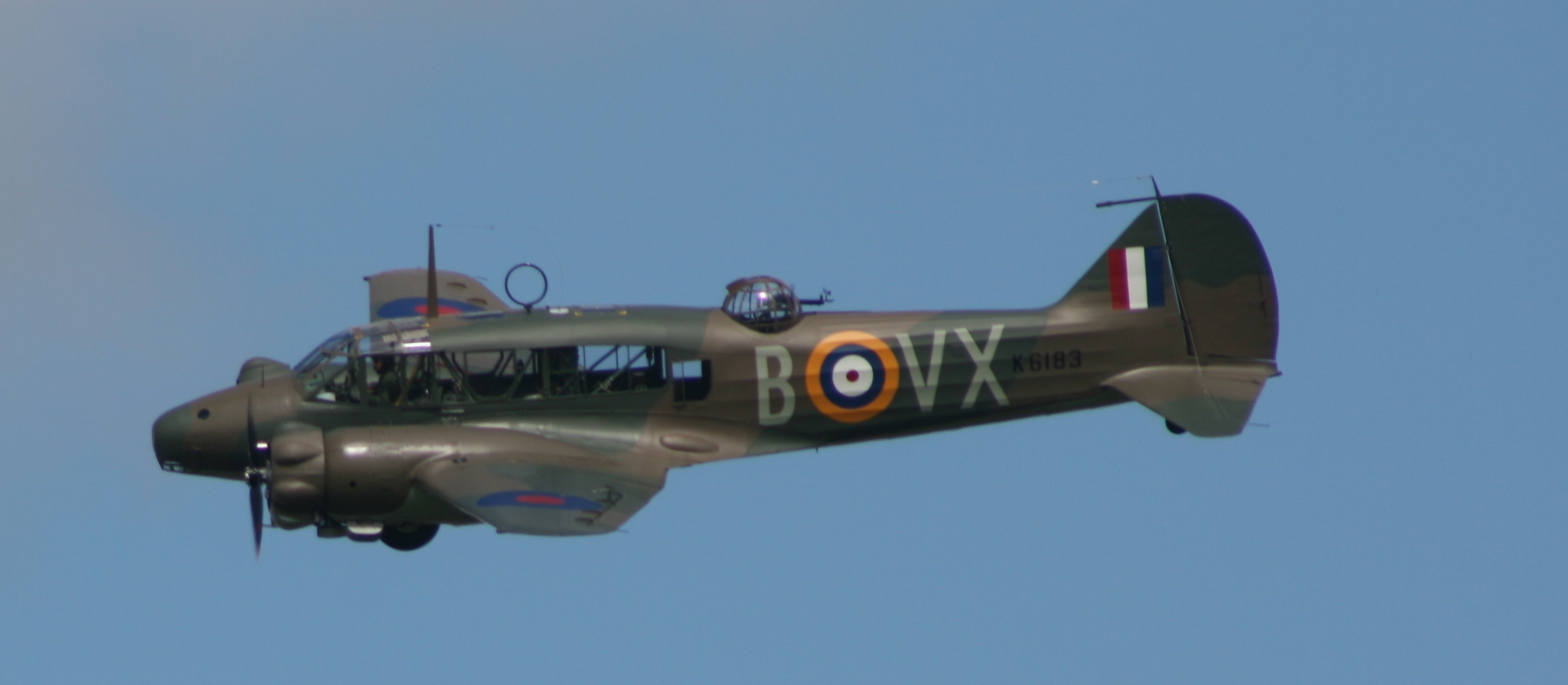 Avro Anson 652A MkI at Ardmore Aerodrome de Havilland Mosquito Launch Spectacular, 2012. (Reg ZK-RRA, S/No. MH-120)